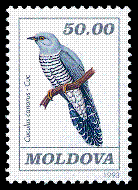 Stamp of Moldova